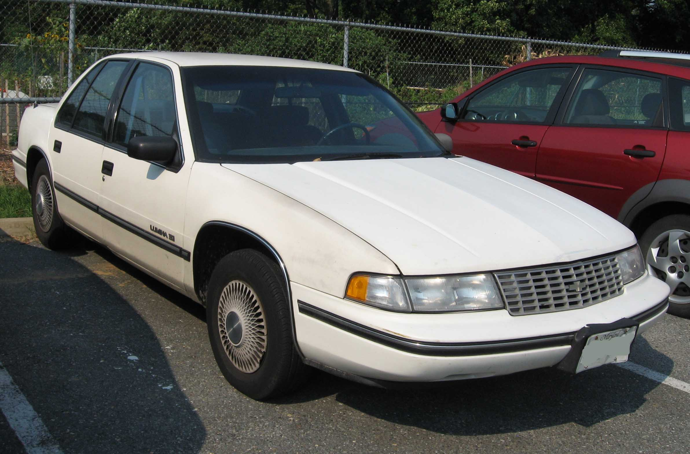 1990 Chevrolet Lumina photographed in Silver Spring, Maryland, USA.